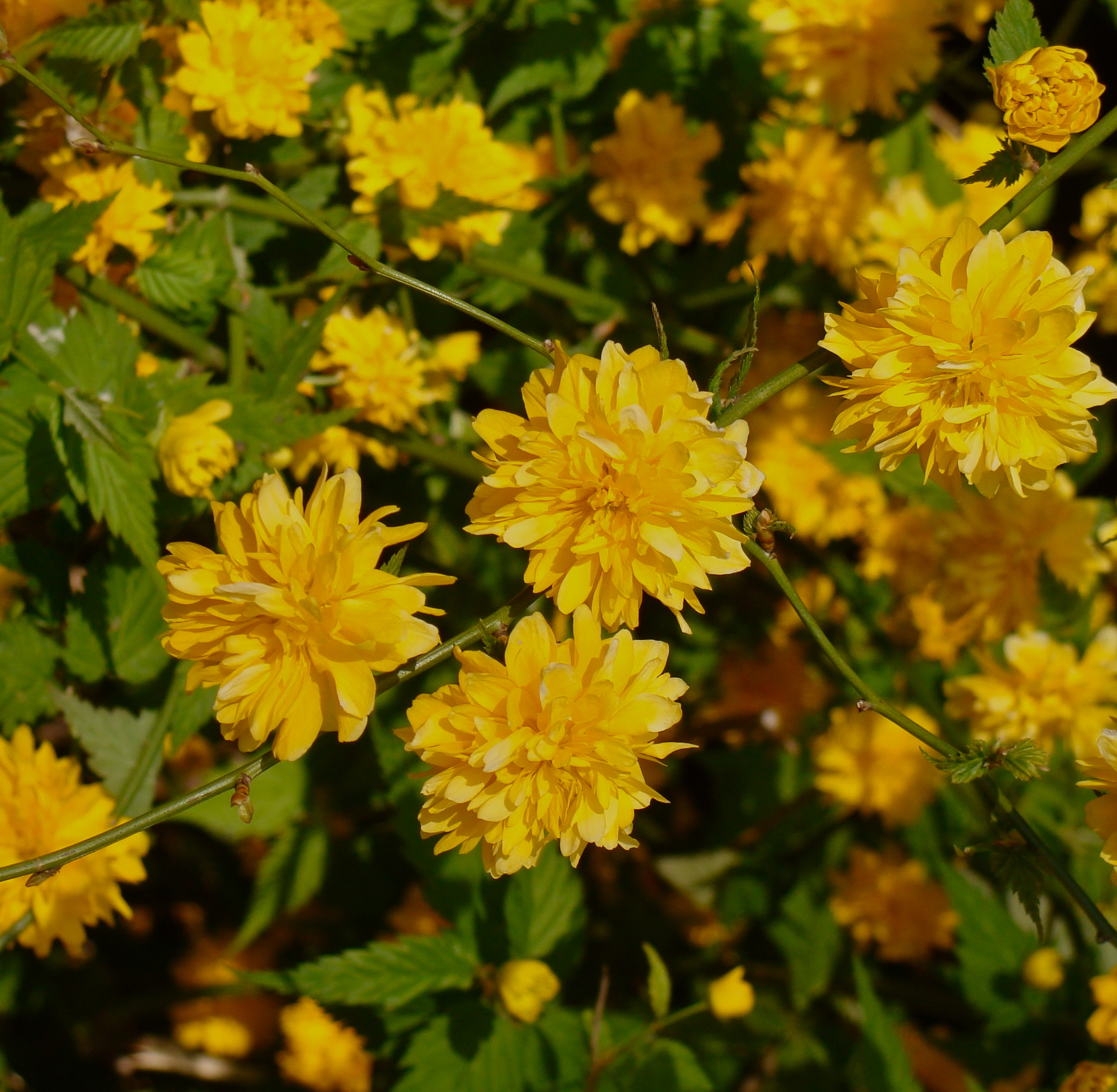 kerria japonica pleniflora. Parc Floral de Paris